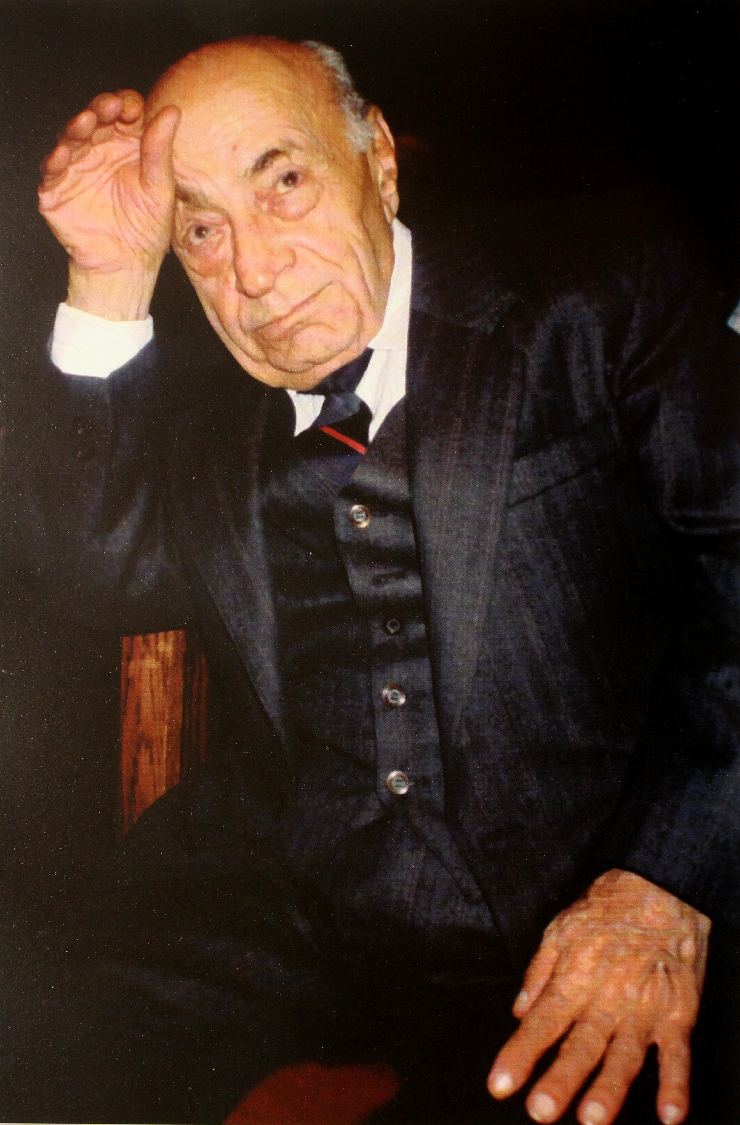 The making of this file was supported by Wikimedia Armenia.